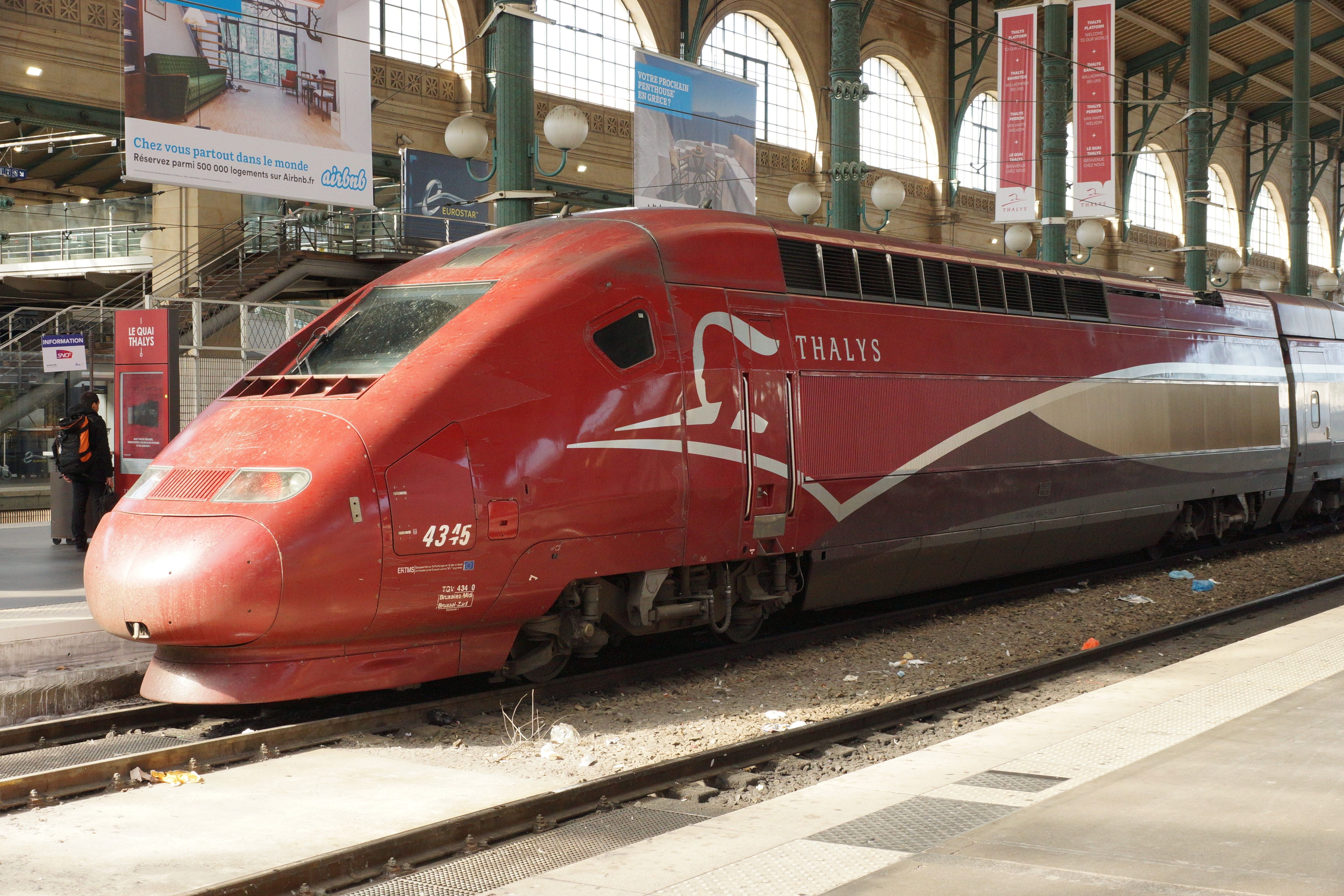 Gare du Nord, Paris, France.